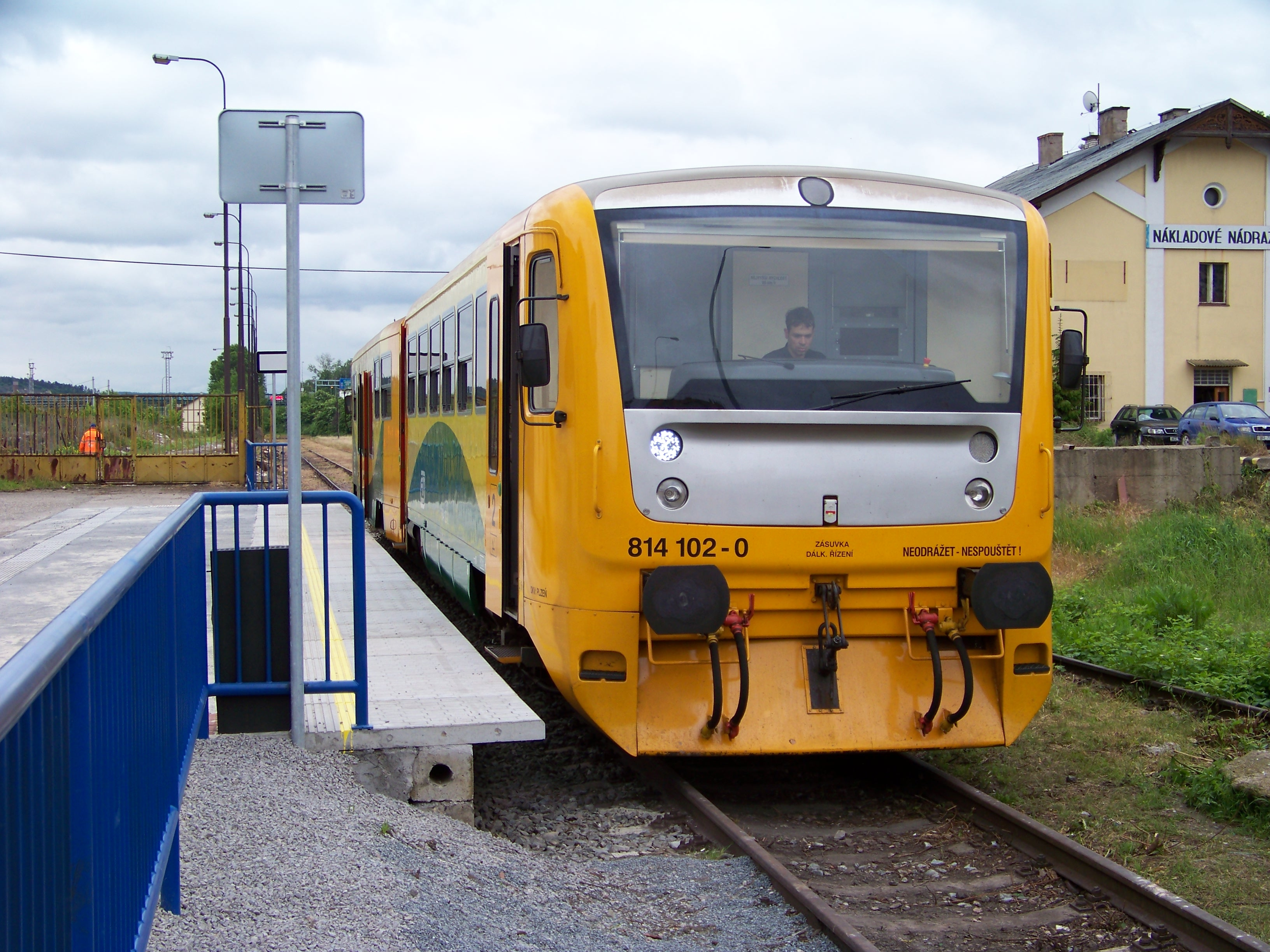 Smíchov, Prague, the Czech Republic. "Praha-Smíchov, Na Knížecí", temporary train stop. A train at the station.